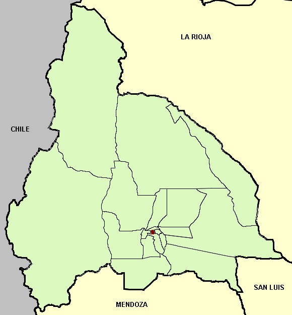 It shows administrative boundaries of San Juan province in Argentina, its departments and its capital (San Juan city).